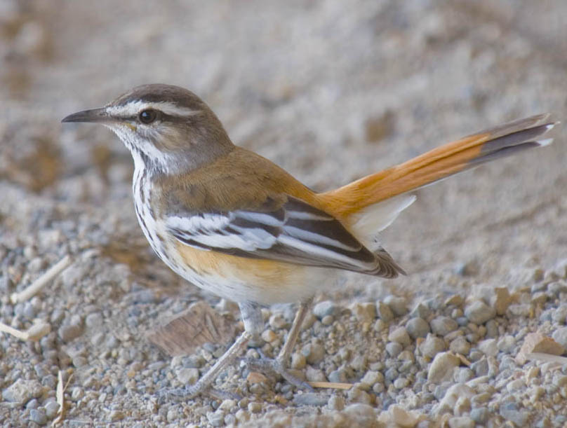 Red-backed scrub robin in Serengeti National Park, Tanzania